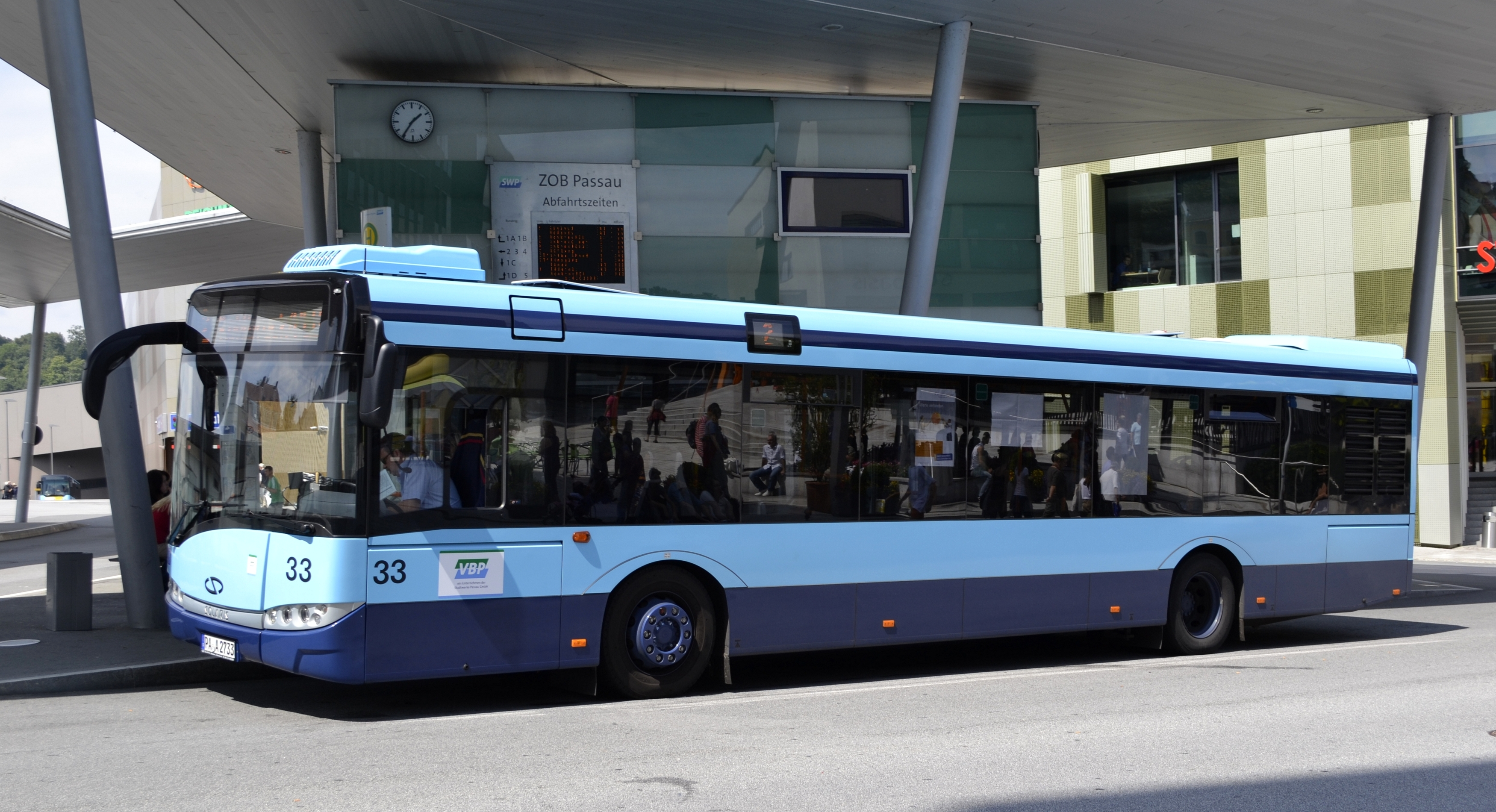 Solaris Urbino 12 bus (PA-A 2733; #33) in Passau, Germany. Stadtwerke Passau GmbH operator.